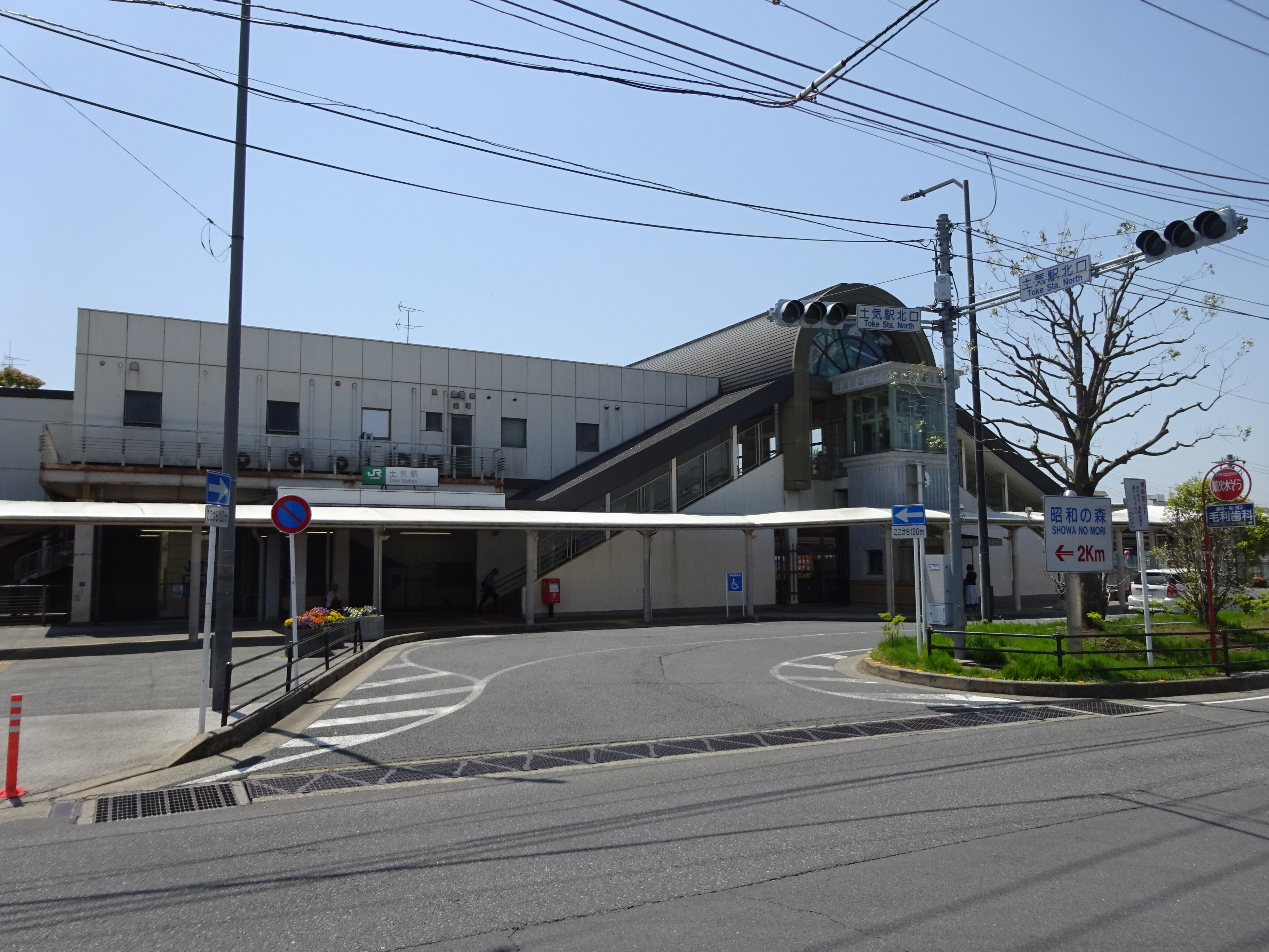 North entrance of Toke Station